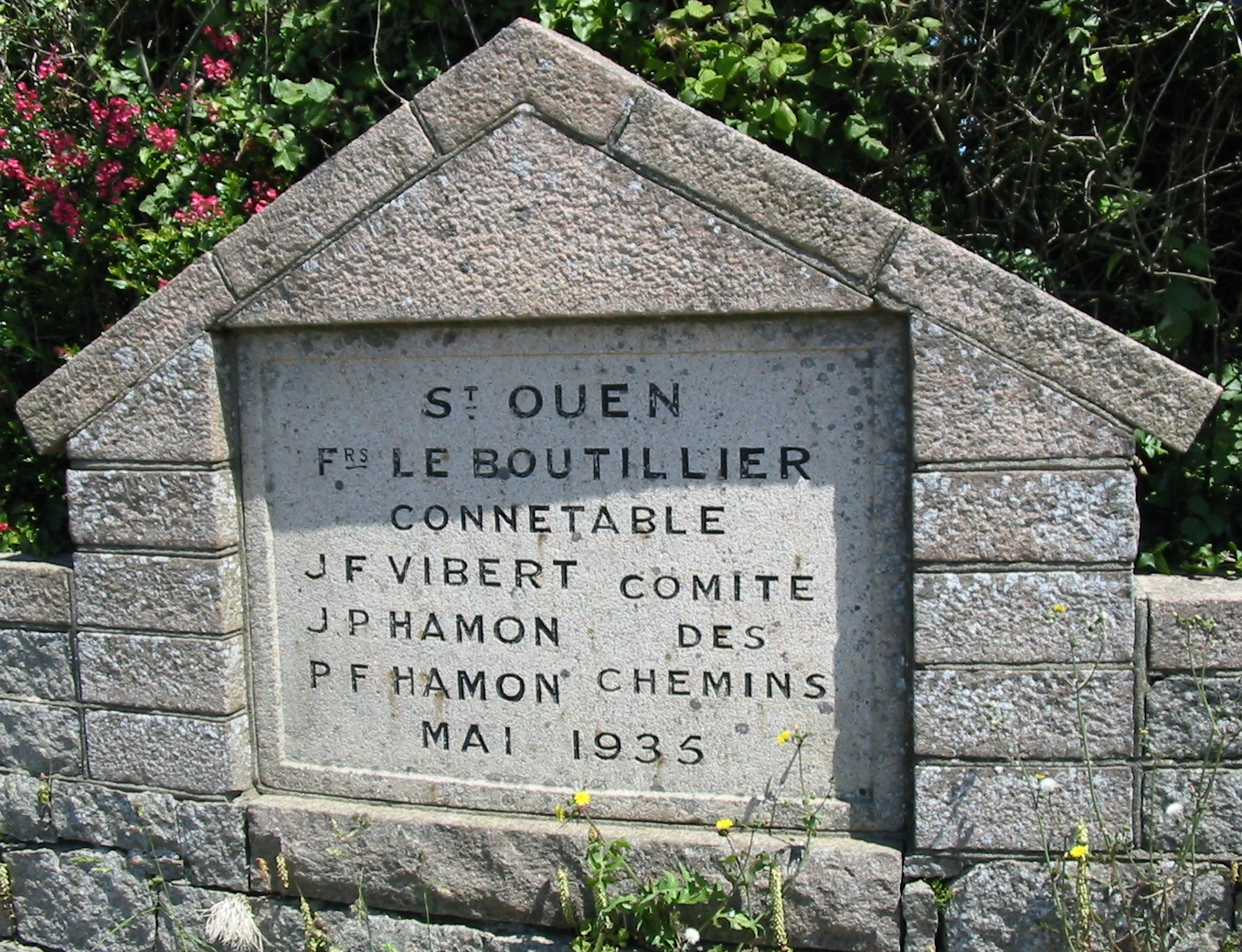 Road marker in La Route de Vinchelez, St Ouen, Jersey, dated May 1935, giving names of the Connétable and members of the Roads Committee.